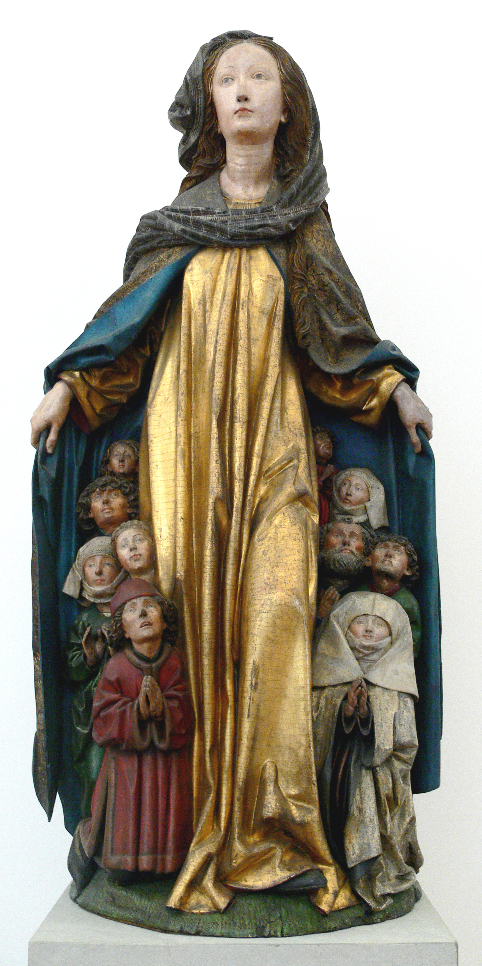 Virgin of Mercy, reportedly from the high altar altarpiece of the Church of our Lady in Ravensburg, Upper Swabia, c. 1480, limewood, original colours with some overpainting. Skulpturensammlung (Inv. 421, purchased in 1850), Bode-Museum, Berlin.